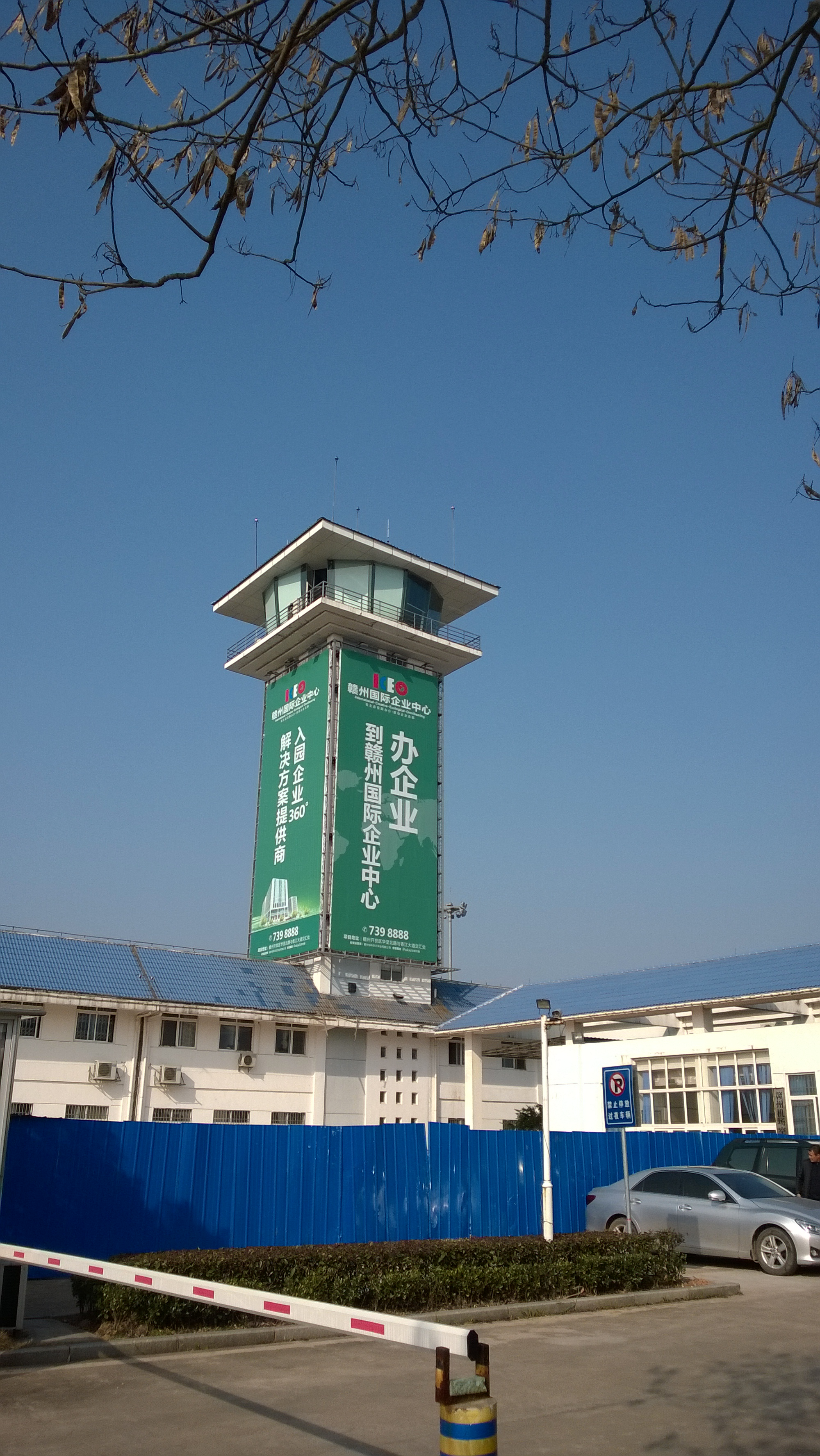 The control tower of Ganzhou Huangjin Airport in Ganzhou, Jiangxi, China.